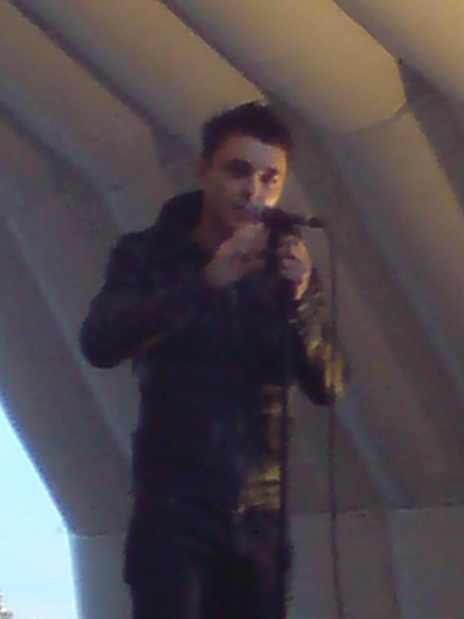 Leon Jackson